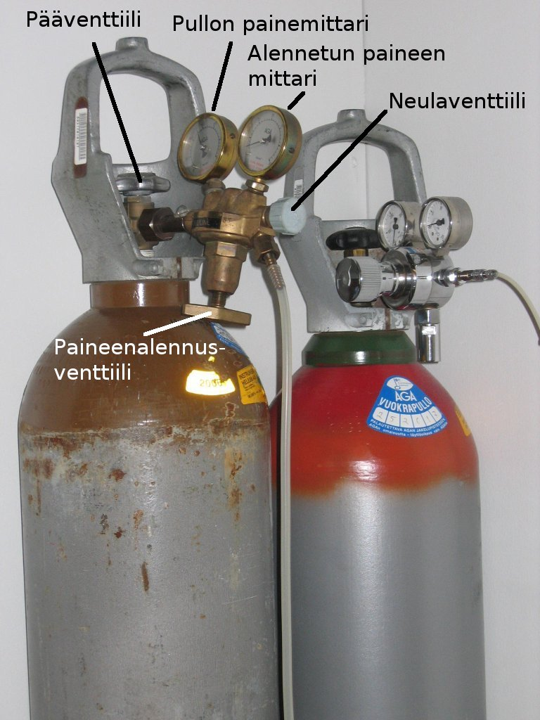 Two gas bottles, the left one contains helium. At the Department of Physical Sciences, University of Helsinki